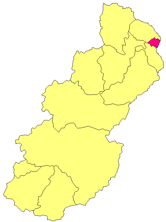 Location of Malinau City in Malinau Regency, North Kalimantan.